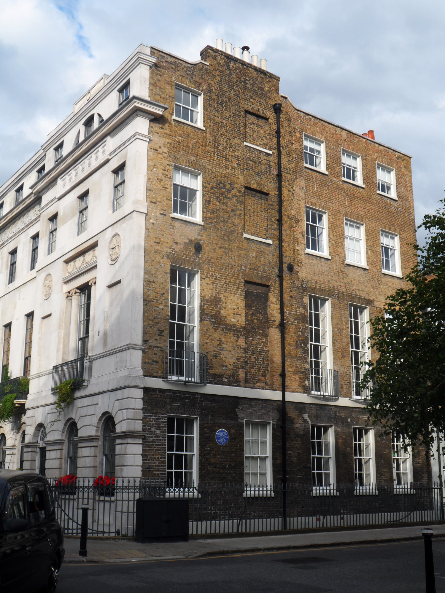 In this house ROGER FRY 1866-1934 Artist and Art Critic ran the OMEGA WORKSHOPS 1913-1919